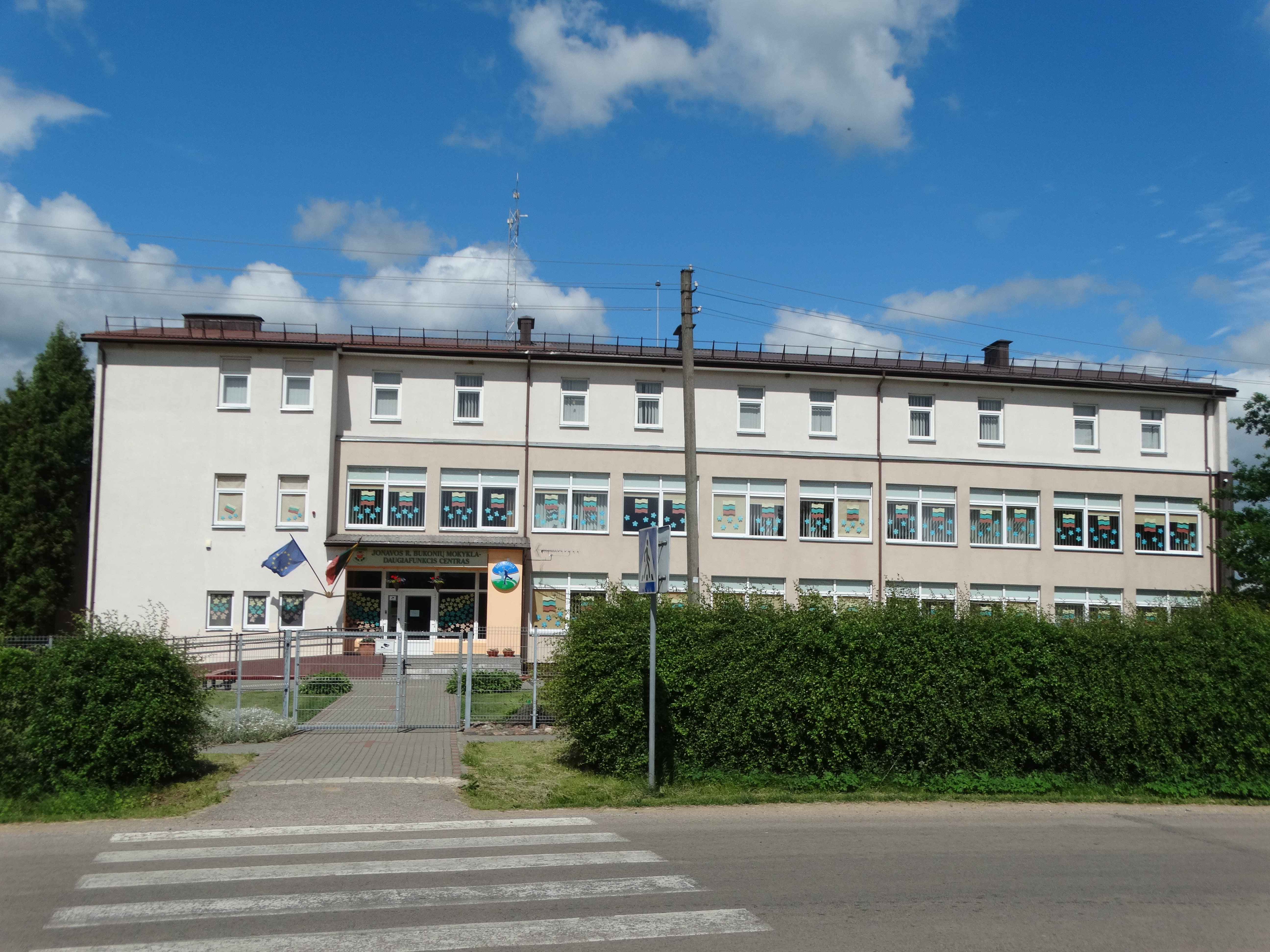 School–multifunction centre, Bukonys, Jonava district, Lithuania